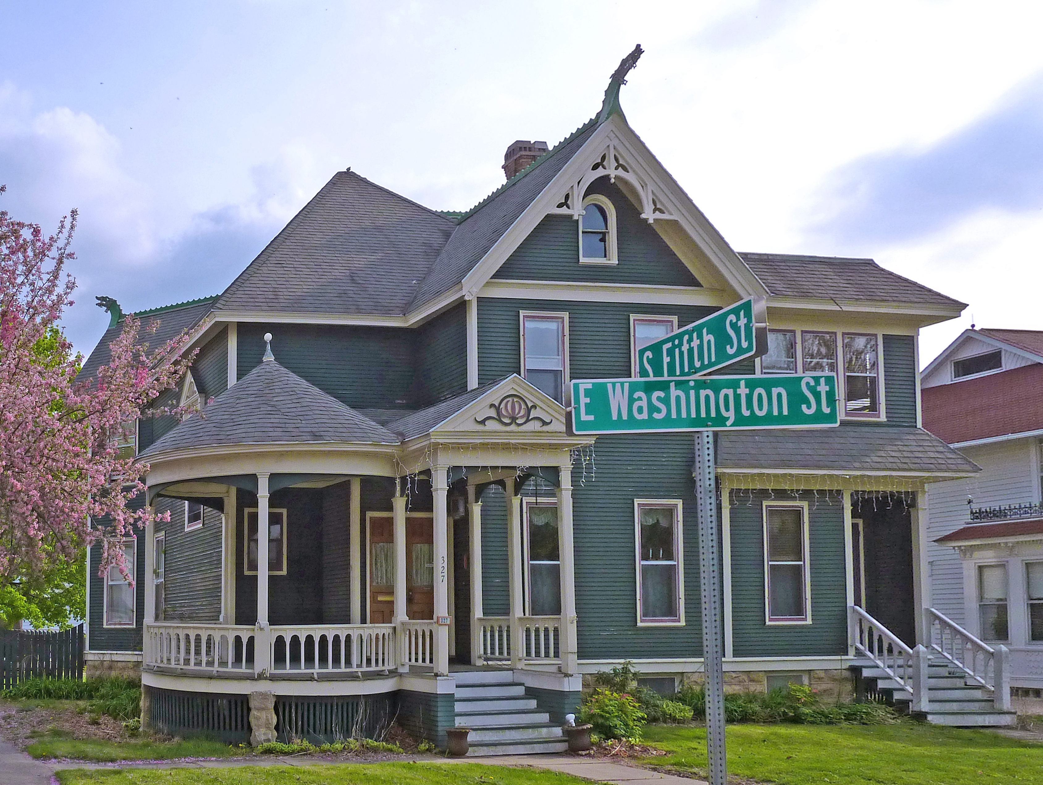 The Iverson-Johnson House at 327 E. Washington Street in Stoughton, Wisconsin, was built in 1898 and added to the National Register of Historic Places in 1988. The gable fretwork, characteristic of Stoughton, here extends to Nordic dragon heads.